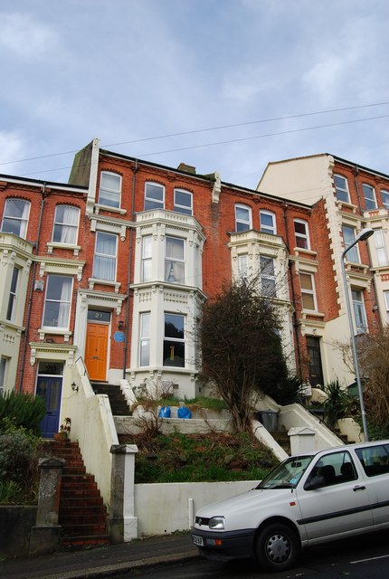 John Logie Baird Lived Here!, Linton Crescent JL Baird the inventor of the television lived here for several years when he lived in Hastings.